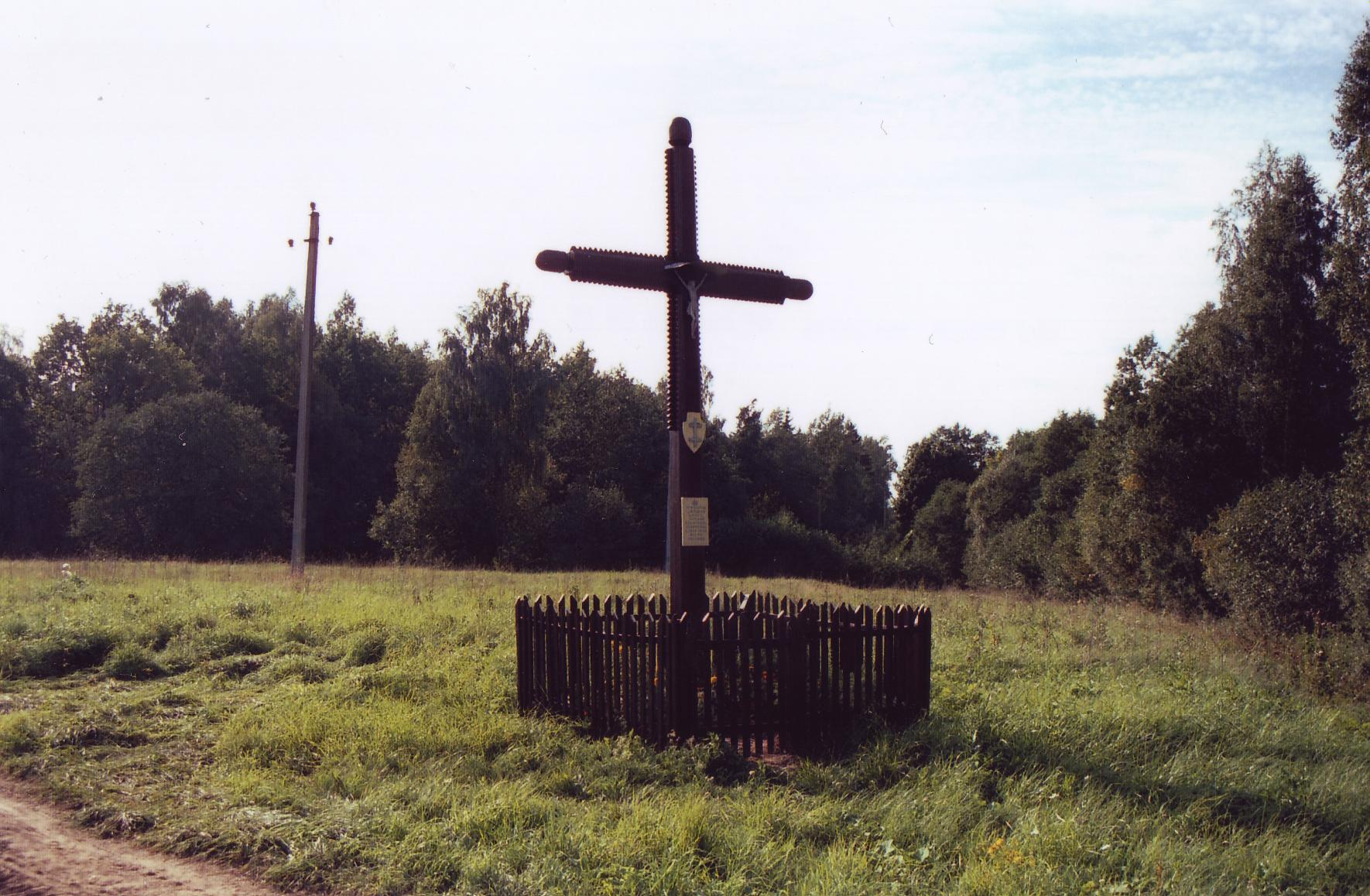 Vaineikiai monument, Kretinga district, Lithuania